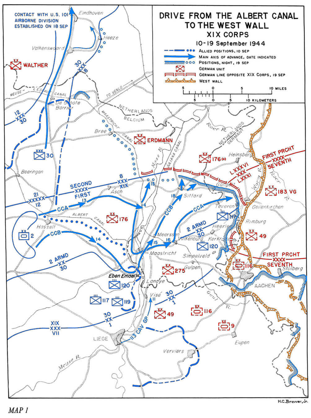 Drive From the Albert Canal to the West Wall, XIX Corps, 10-19 September 1944.